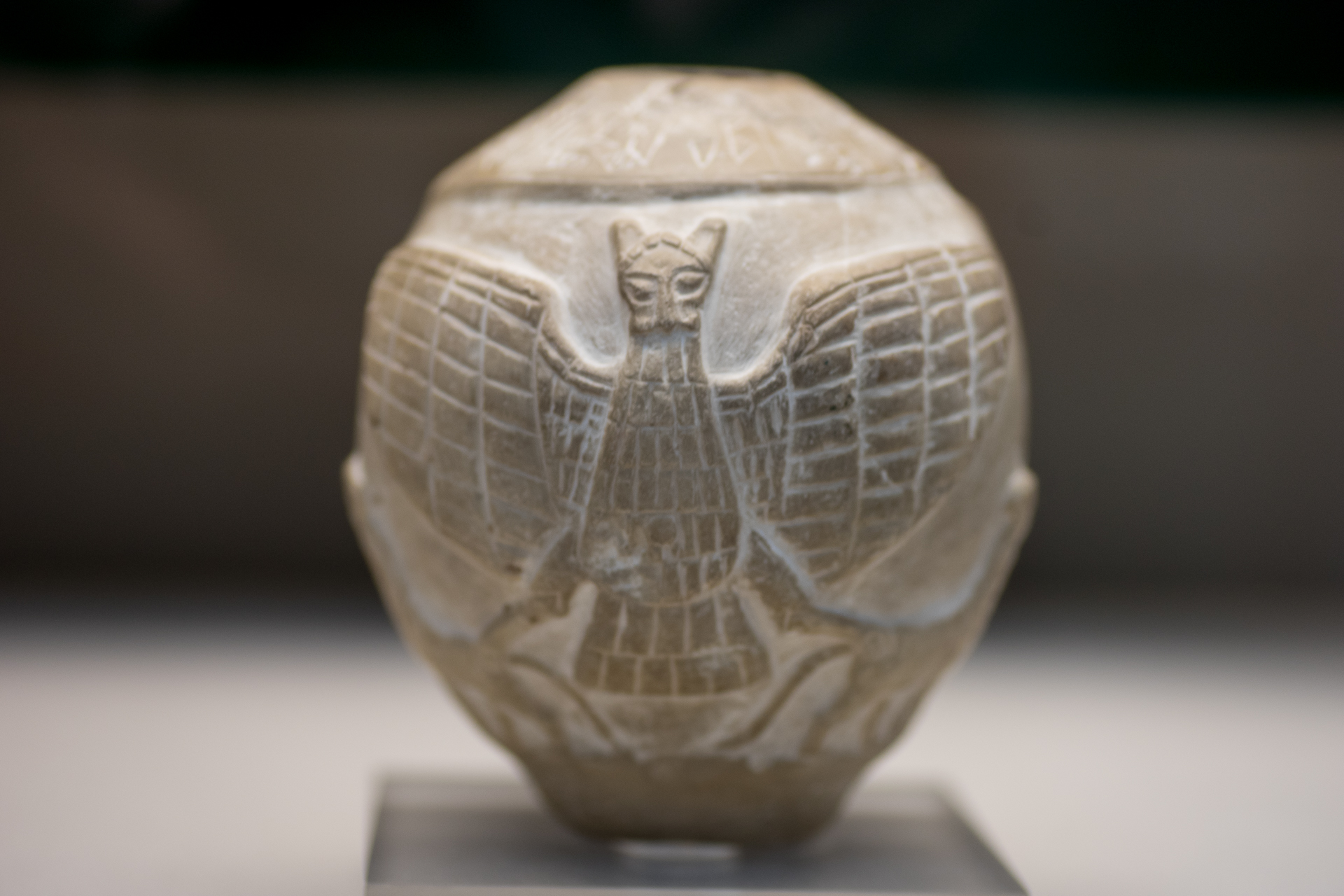 British Museum - Room 56